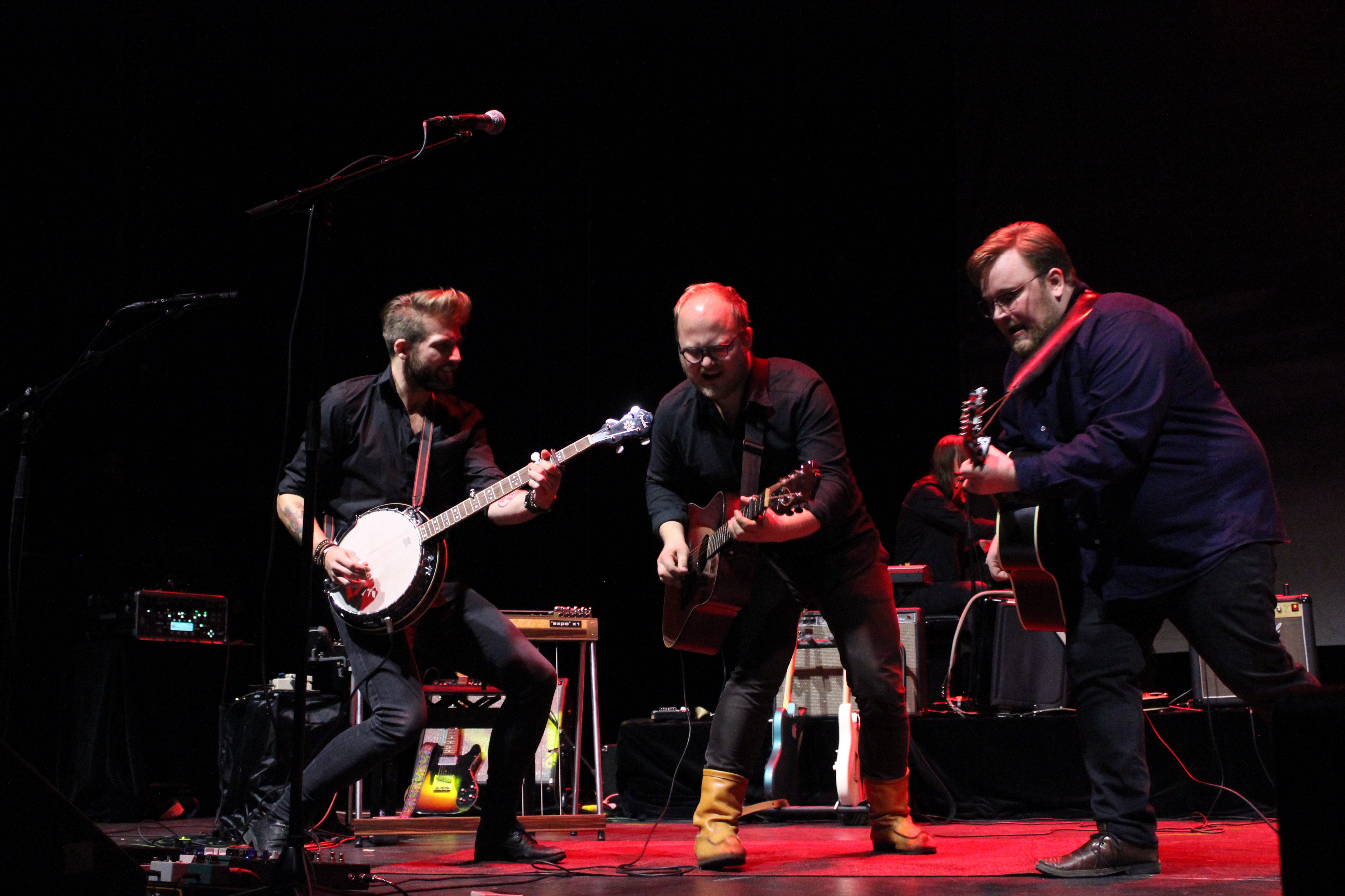 Höstrokestern live in Kiruna, Sweden 2017 during the concert "Kirunas Finest"